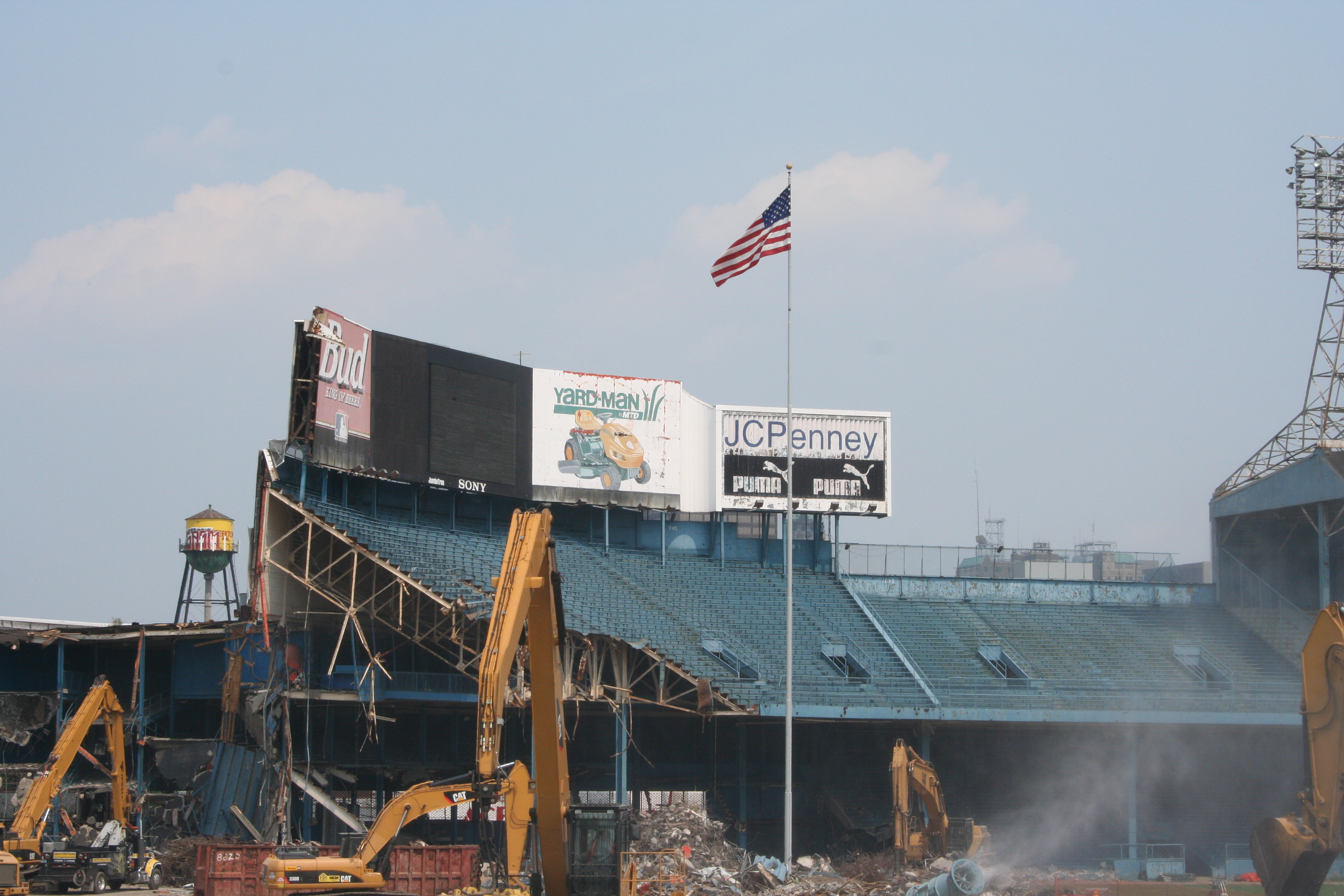 View of Tiger Stadium's outfield bleachers being demolished.